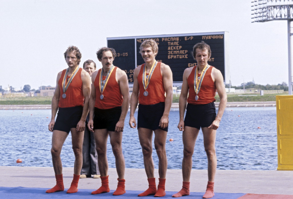 “Alexei Kamkin, Valery Dolinin, Alexei Kulagin, Vitaly Eliseyev”. Silver medalists in men's coxless fours rowing event, left to right: Alexei Kamkin, Valery Dolinin, Alexei Kulagin, Vitaly Eliseyev. XXII Summer Olympic Games in Moscow. Canoeing and rowing basin in Krylatskoye.